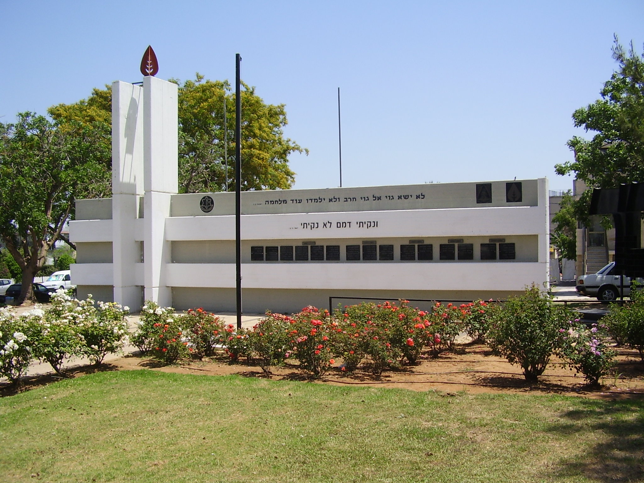 war memorial in rosh haa'yin, israel אנדרטה לנופלים במערכות ישראל בראש העין